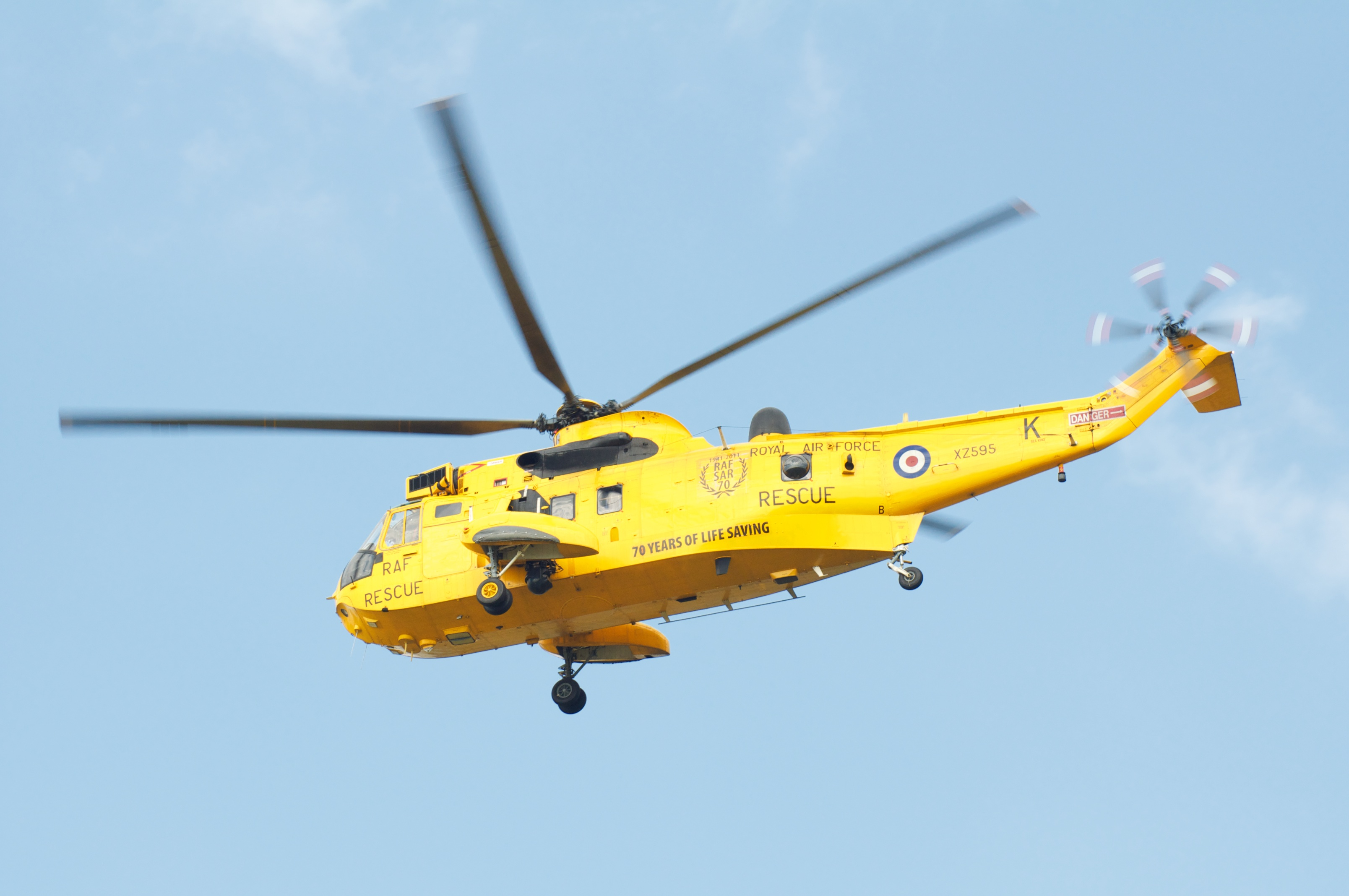 22 Squadron SH-3 Sea King Helicopter coming into RAF Valley